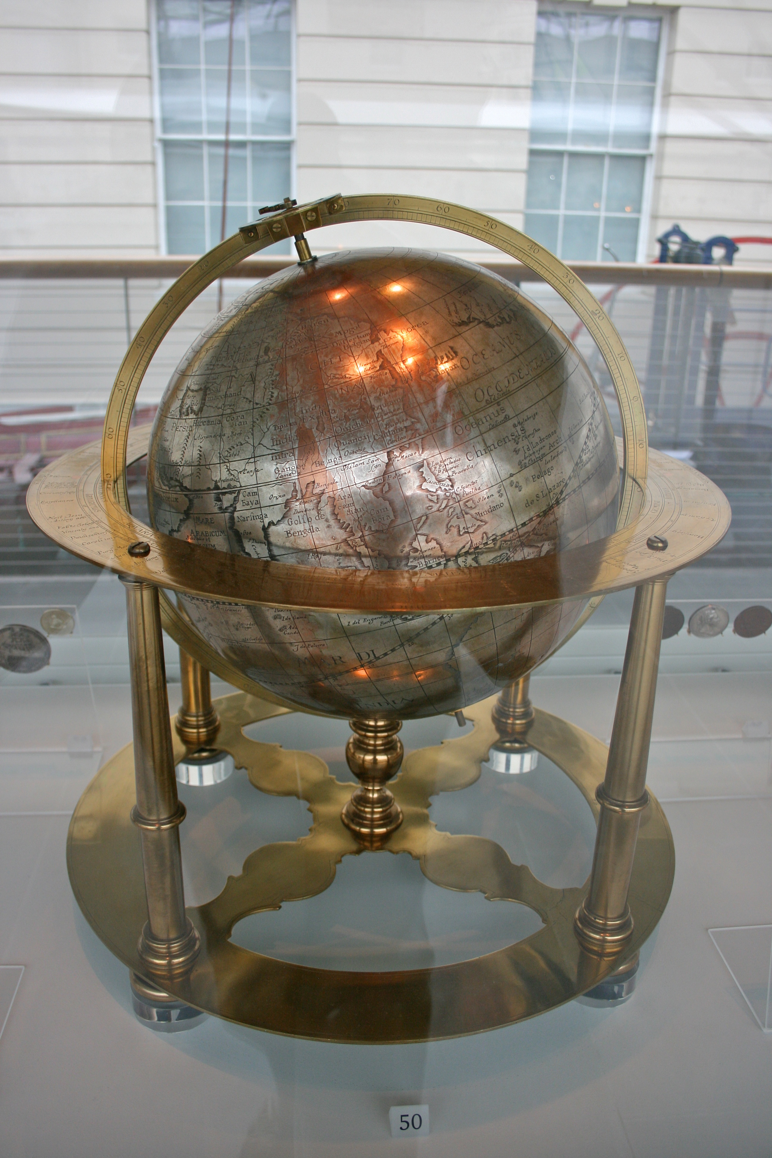 German terrestrial globe, about 1725, GLB0162. On display at the National Maritime Museum.